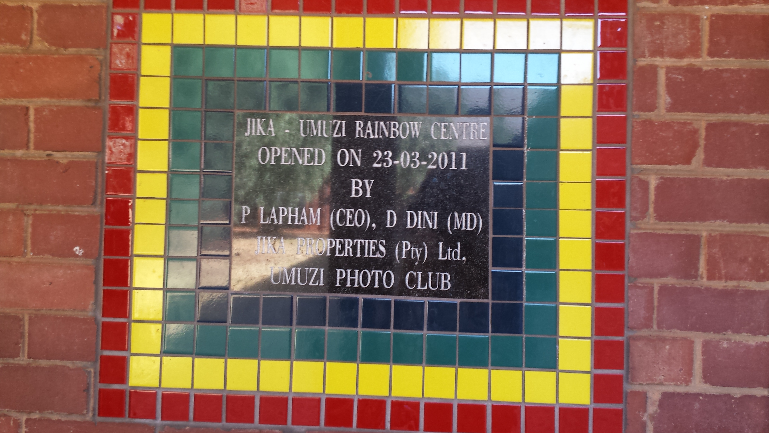 Umuzi Photo Club Placard